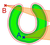 Complex analysis proof of the Jordan curve theorem